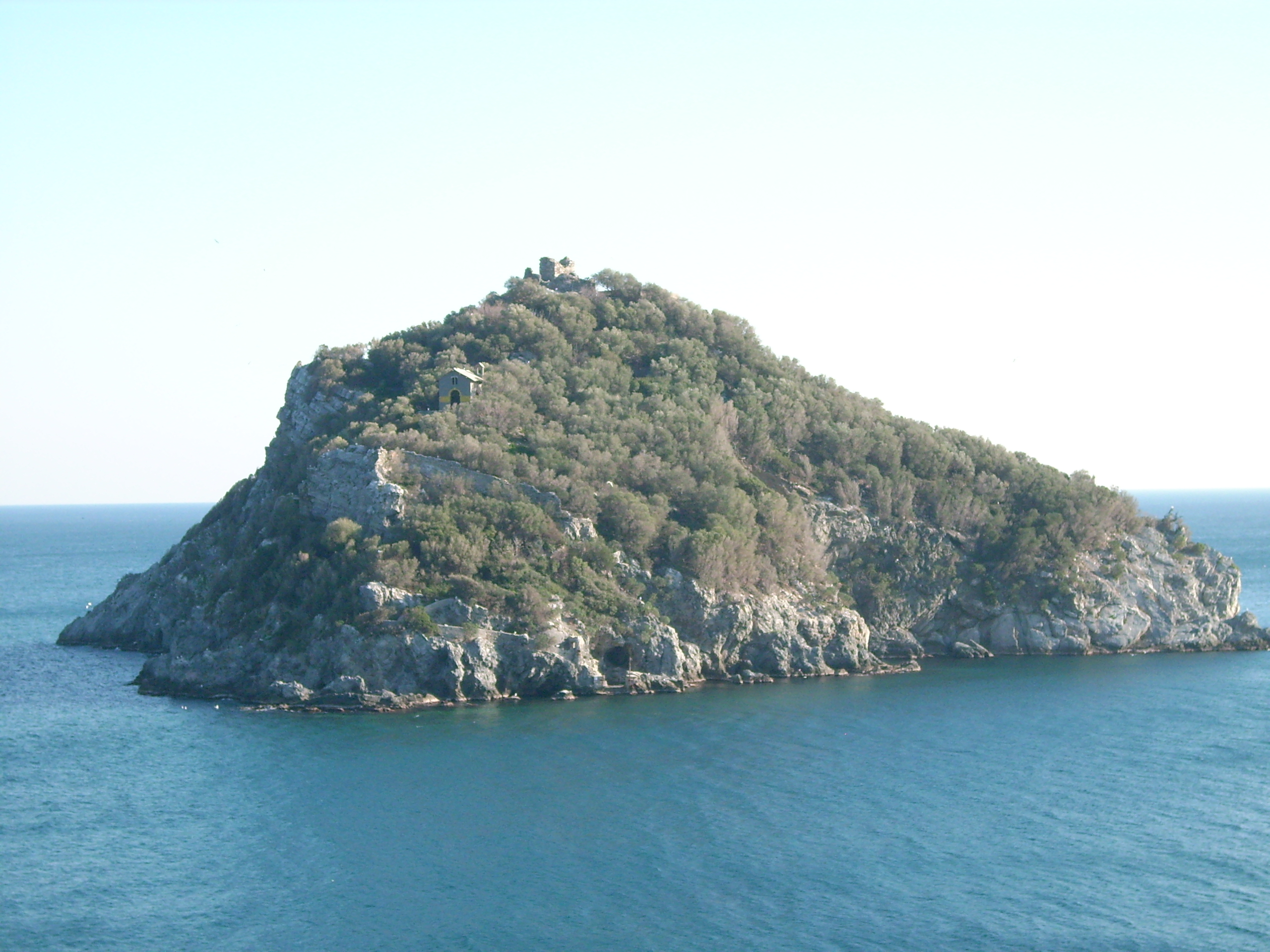 Isola di Bergeggi, Liguria, Italy This is a photography of Natura 2000 protected area with ID IT1323202